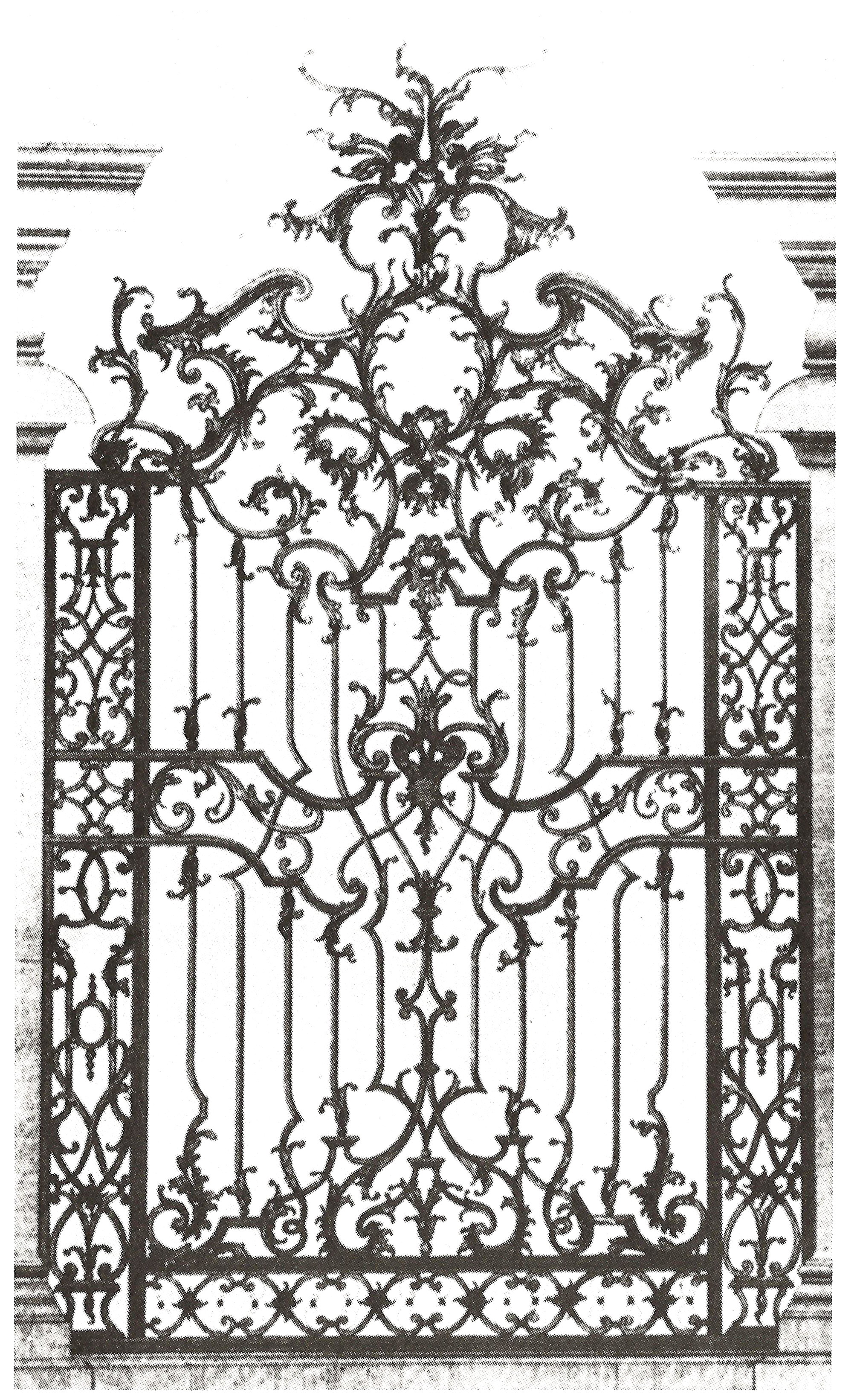 Grid field for the fence for the court of honour for Würzburg Palace ("Residenz"), draft, copper engraving of approx. 1745